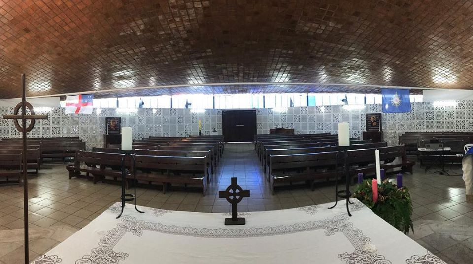 The Cathedral Church of Good Samaritan, of Anglican Diocese of Recife